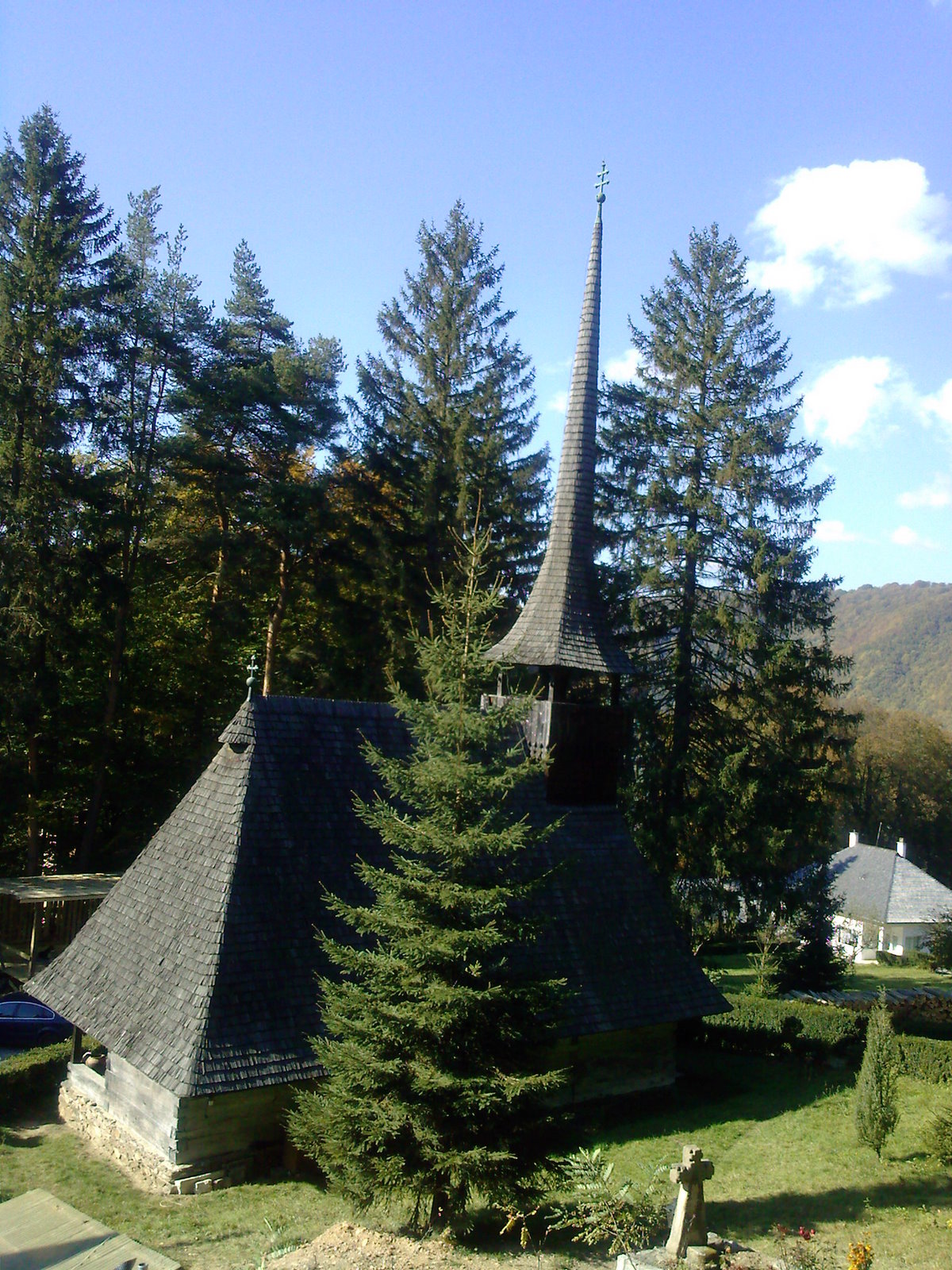 Wooden church in Galpaia, County Salaj (today in Cluj County, Ciucea)